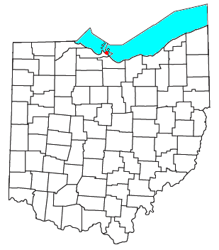 Locator map of the unincorporated community of Lakeside in Ottawa County, Ohio, United States.